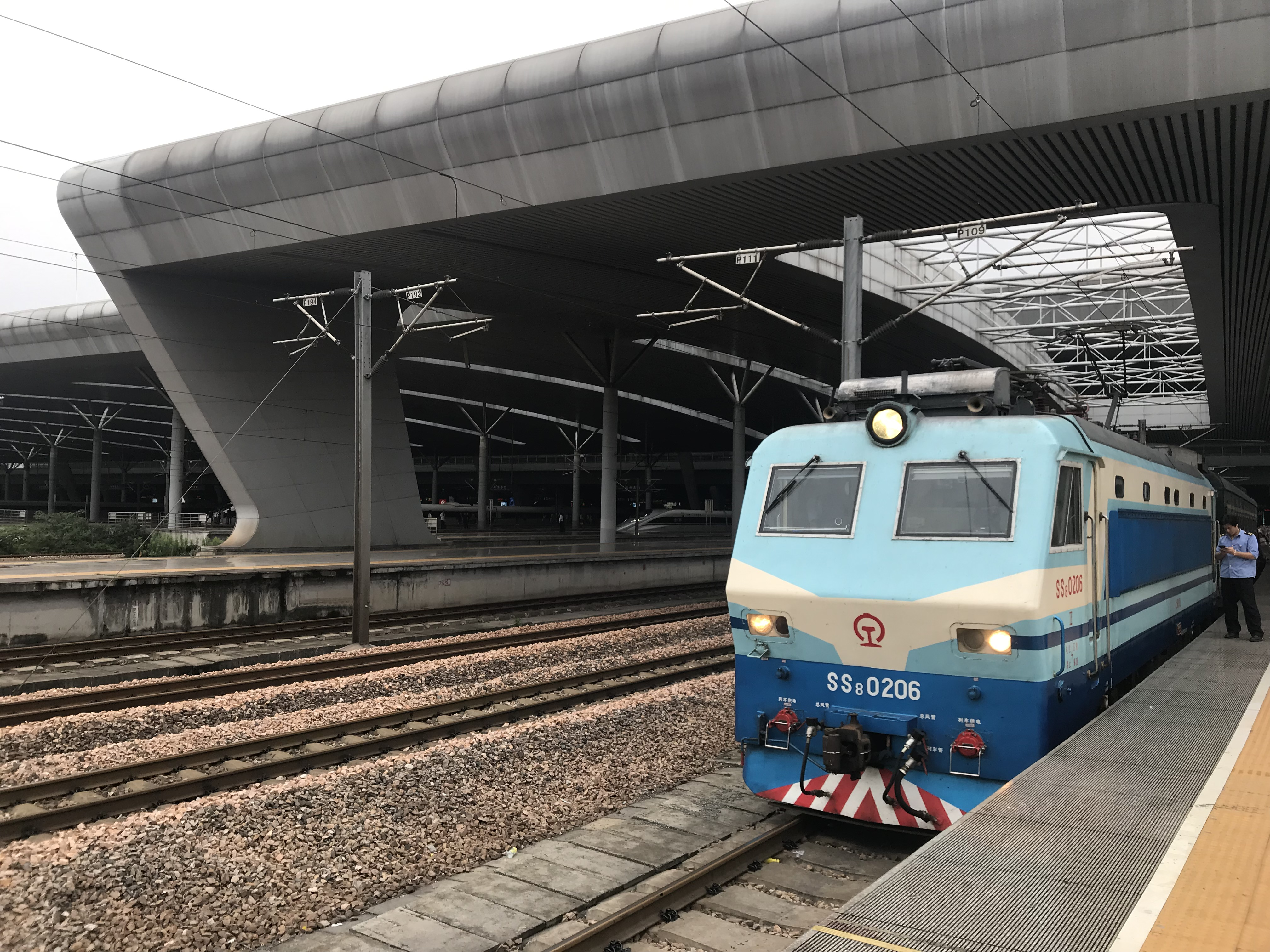 It's not easy to have an overview of the conventional yard of Hangzhoudong Station